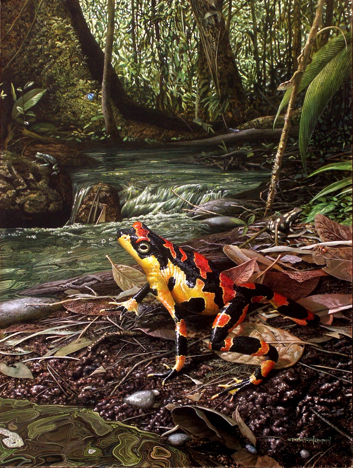 Varied Harlequin Toads (Atelopus varius) acrylic painting by Carel P. Brest van Kempen 20" x 15"